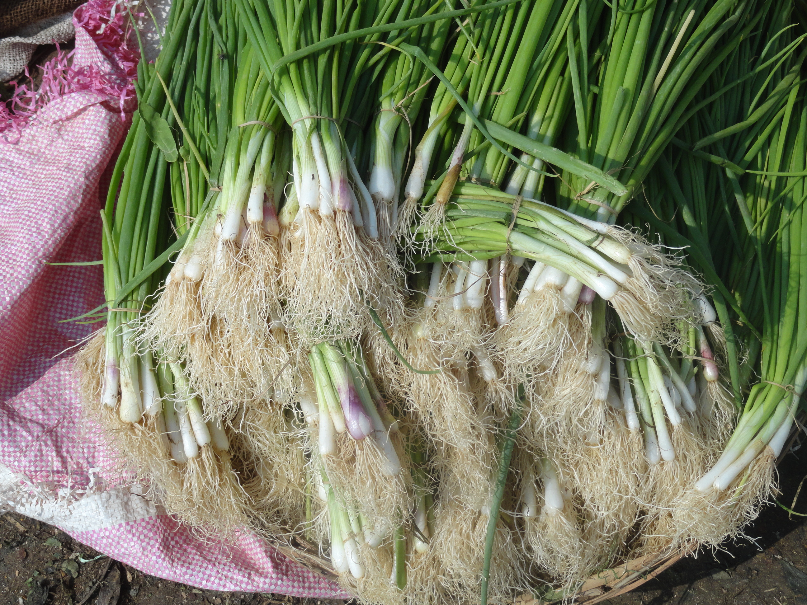 onion leaves for cooking